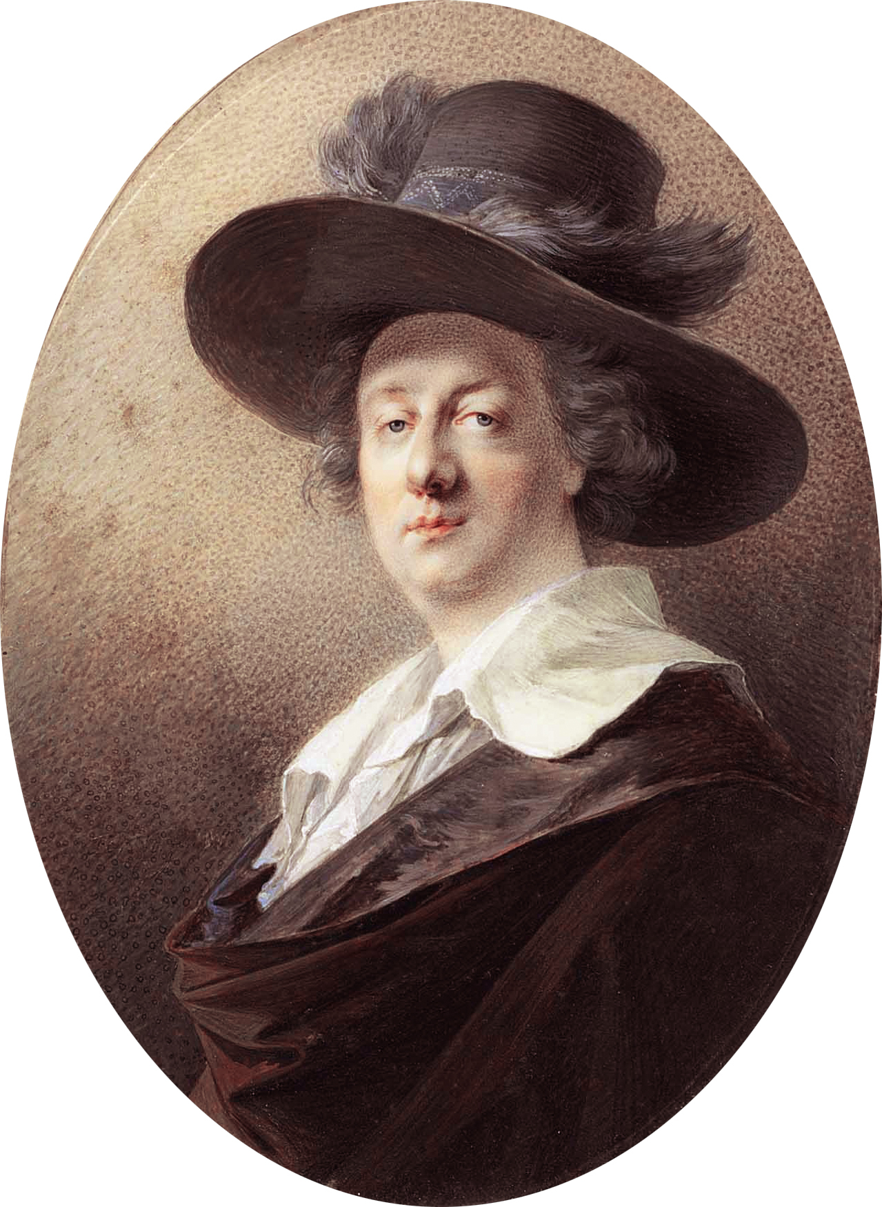 Joseph Barth (1746-1818) on ivory oval 16.4 cm signed l.l.: Fu[..]r p